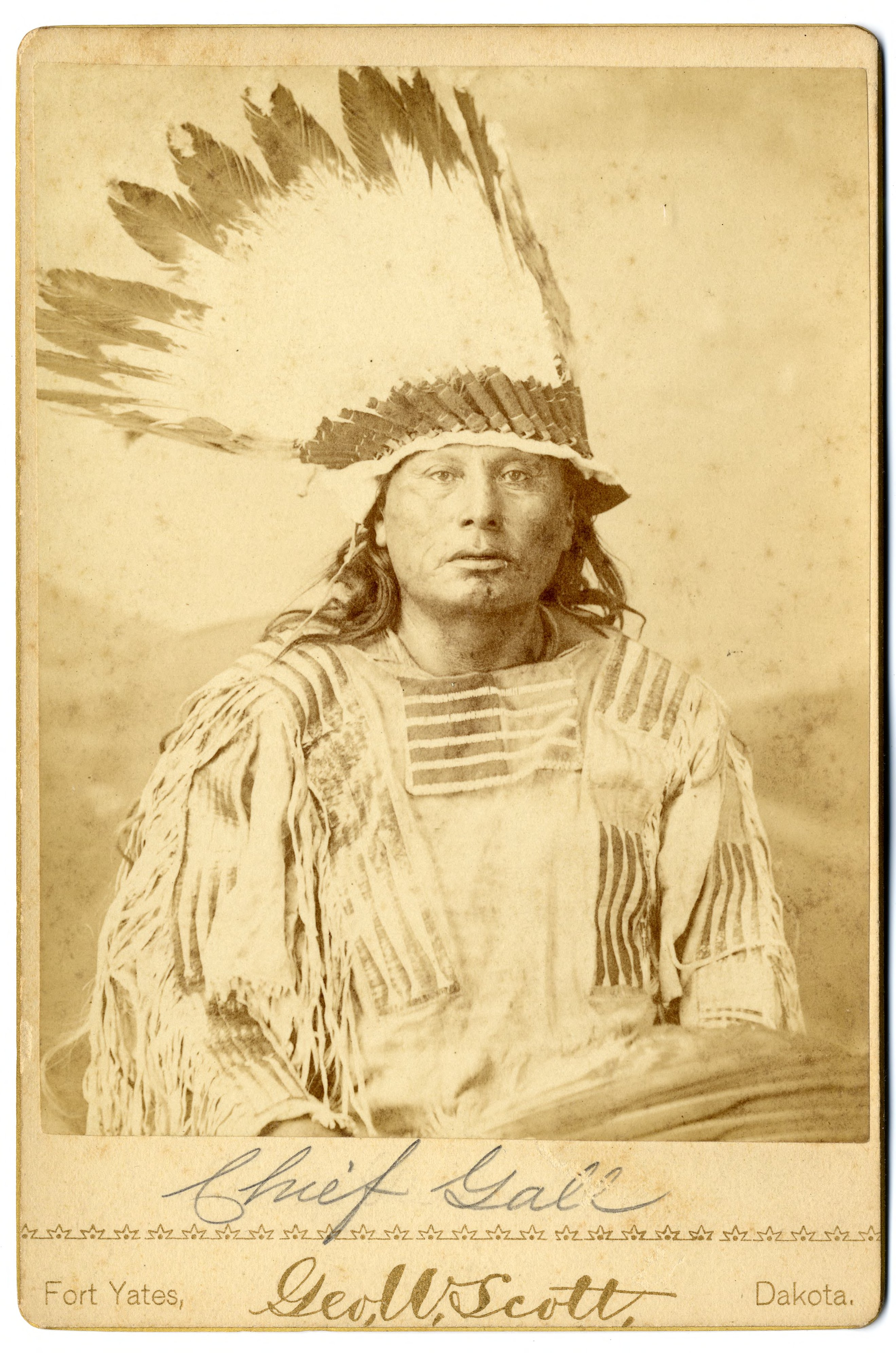 Albumen print cabinet card, waist-length portrait of Hunkpapa Lakota chief Gall (c.1840-1894) in war bonnet